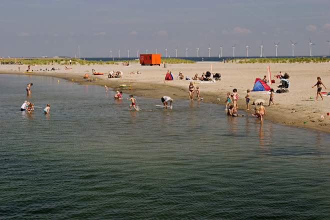 Amager Beach. Amager beach is a good spot for sunbathing and planewatching, Copenhagen.